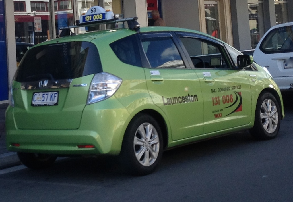 2013 Honda Jazz (GE) Hybrid Hatchback, Taxi Combined Services. Photographed in Launceston, Tasmania, Australia